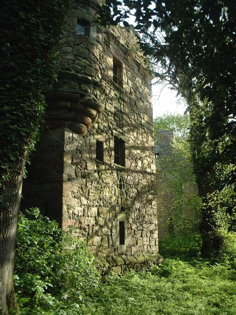 Old Abbey, North Berwick Ruins of the Cistercian nunnery founded c. 1150 by Duncan, Earl of Fife. Granted in 1587 to Alexander Hulme, who may have added this square tower with circular turret.